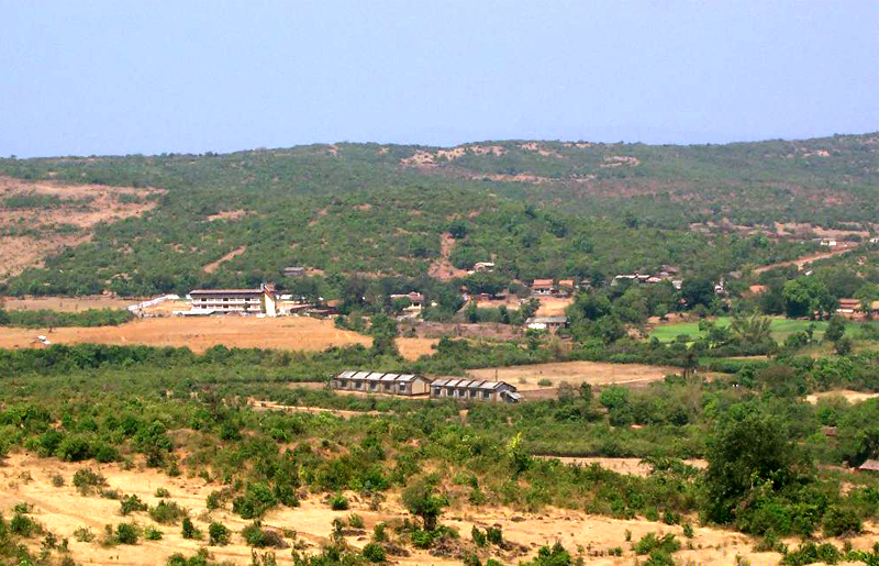 nilesh